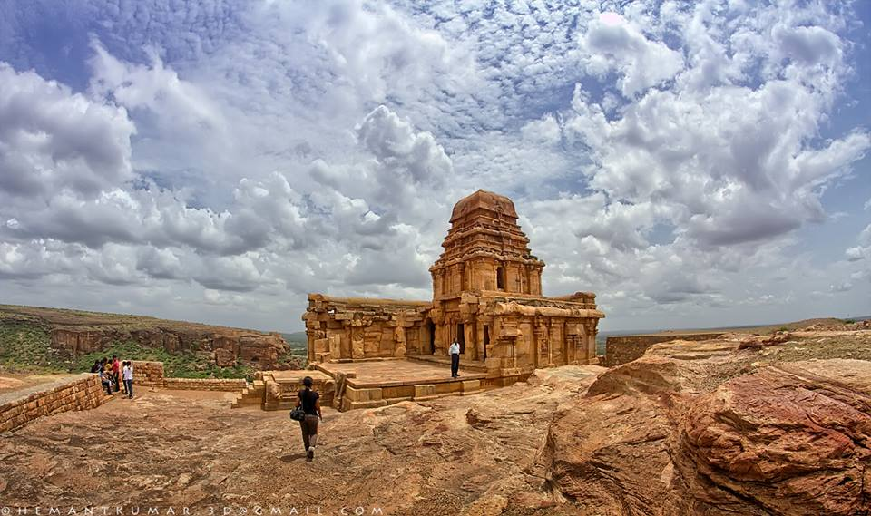 Upper shivalaya temple at Badami